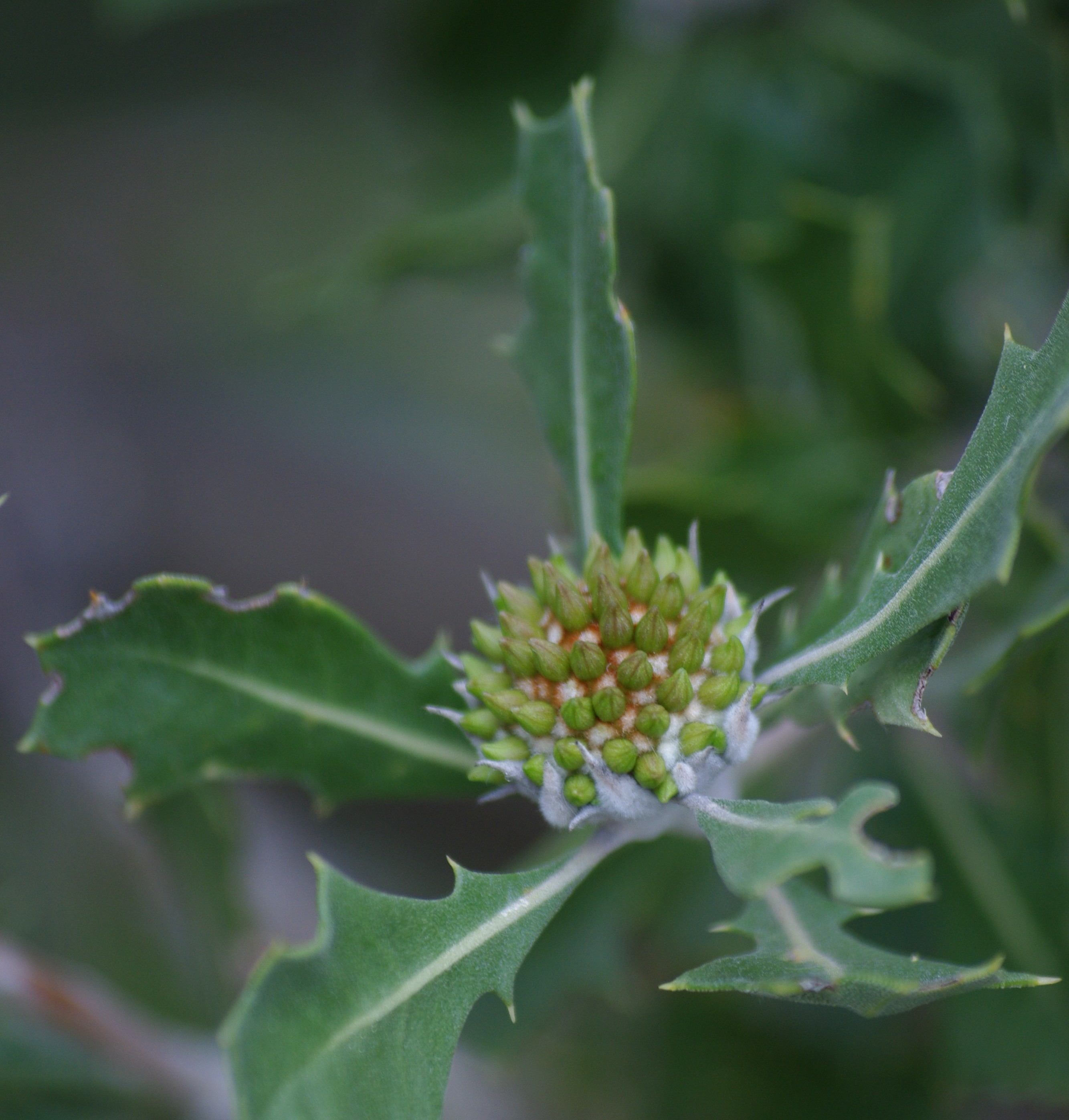 Banksia cunaeta -- Quariading Banksia or Matchstick Banksia